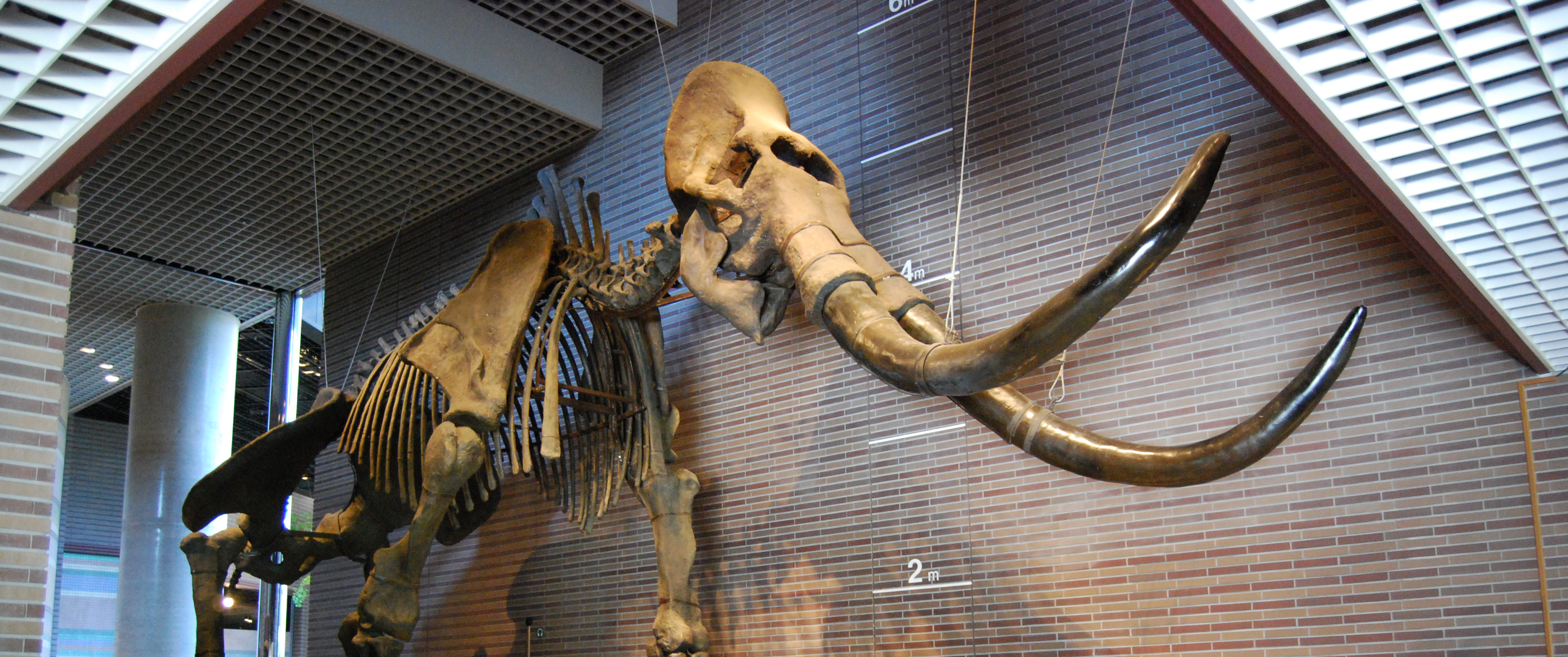 Mammuthus sungari displayed at the Ibaraki Nature Museum